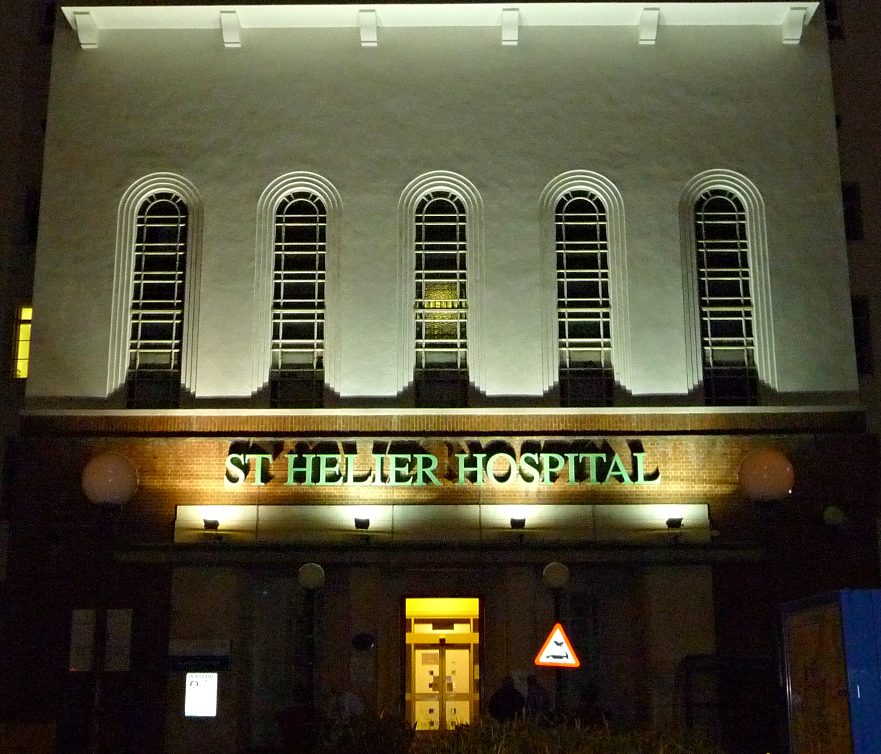 My new workplace. Some strange art deco building on the edge of an open space, it's acually turning out to be a really rather nice place to be! Plus only 45 minutes door to door from my flat via bus and tube! Might even get a bike...